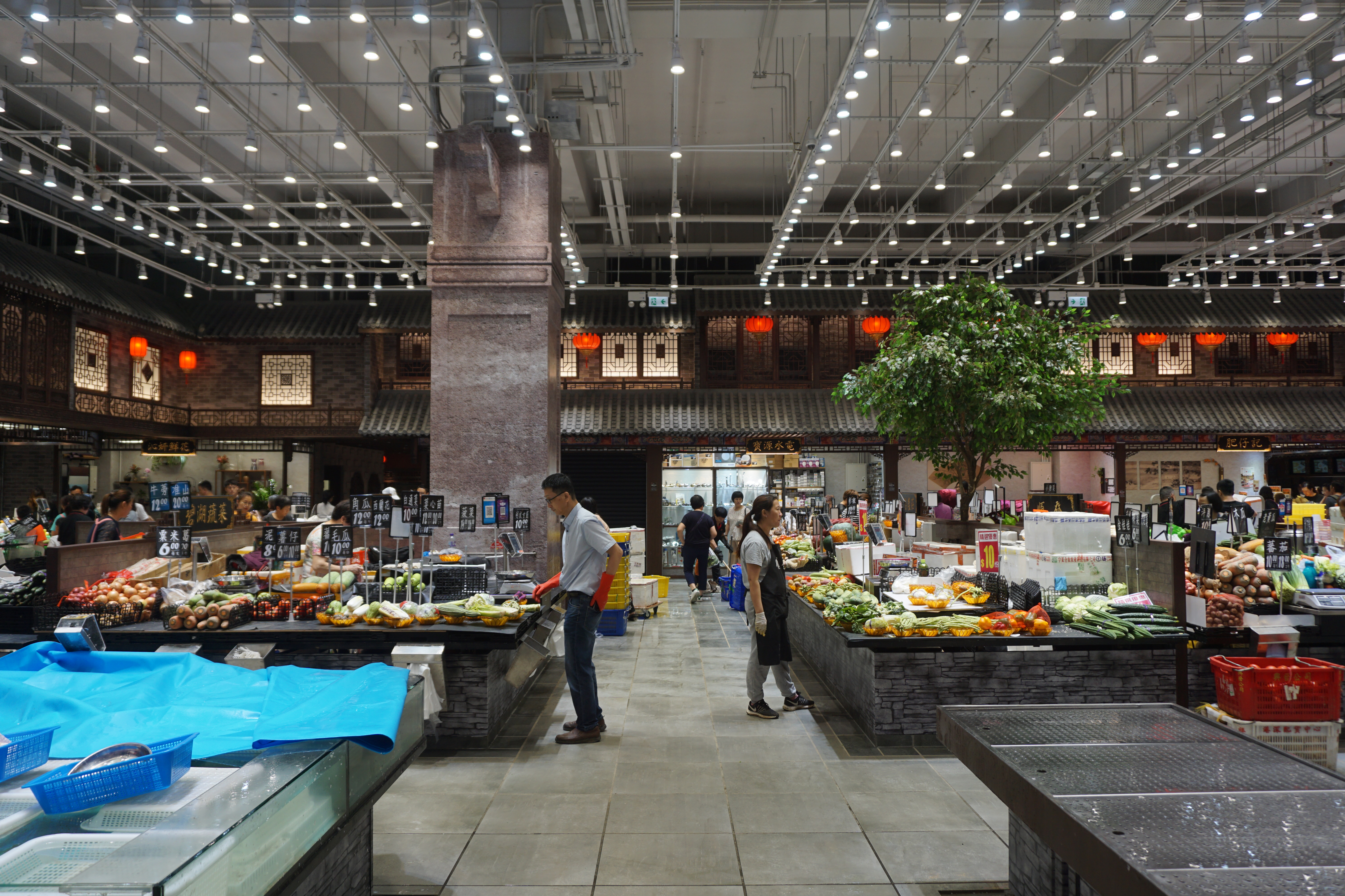 Fresh Town (market) in Fanling, Hong Kong.